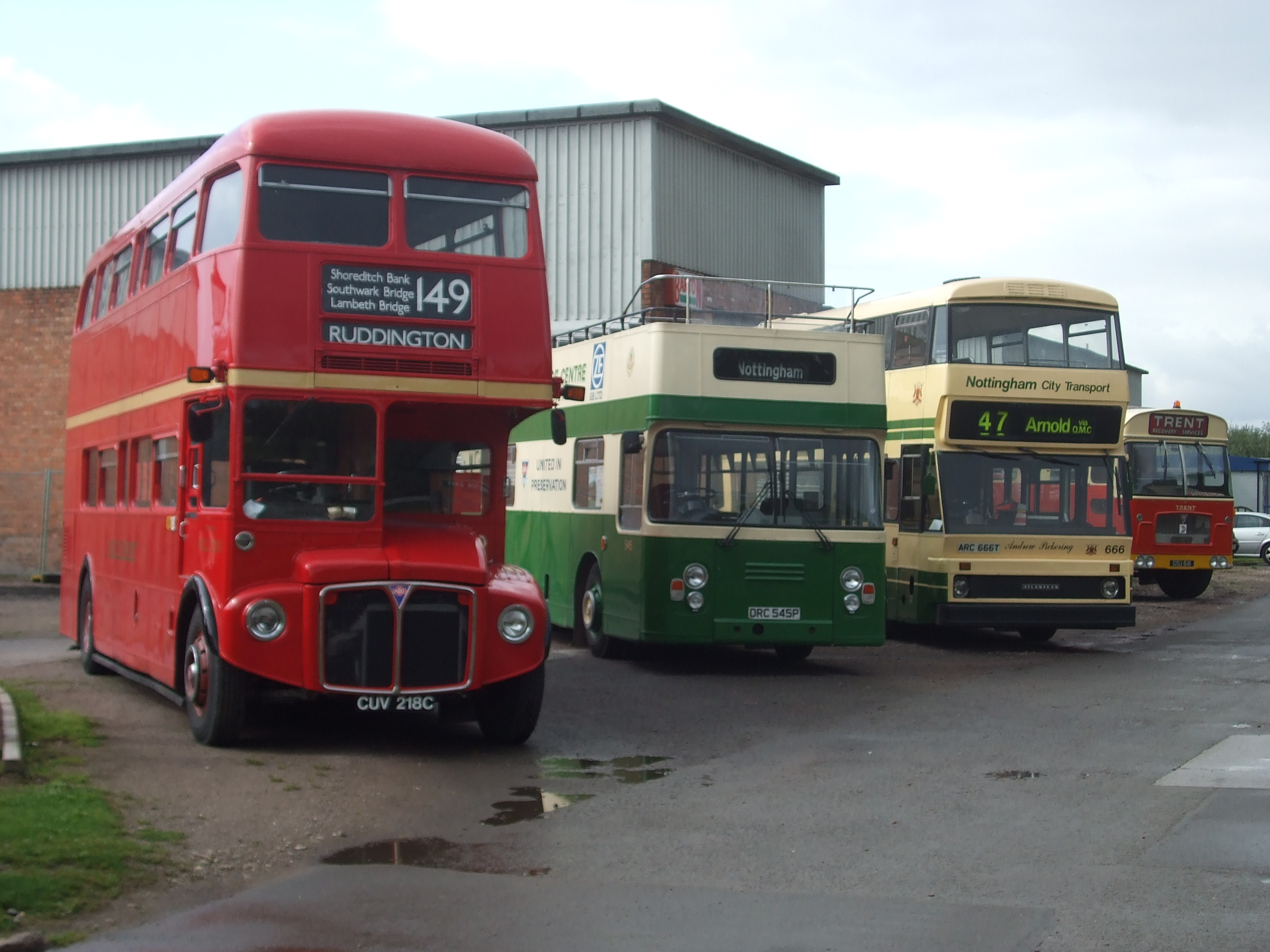 Vehicle lineup at the Nottingham Transport Heritage Centre. Far left is preserved London Transport Routemaster coach RCL2218 (CUV 218C), then two preserved Nottingham City Transport buses, 545 (ORC 545P) and 666 (ARC 666T), and on the end Trent Motor Traction tow truck GSU 841, built in 1952 as a AEC Militant heavy truck but later given an Eastern Coach Works RH body recycled from a Bristol single decker bus.